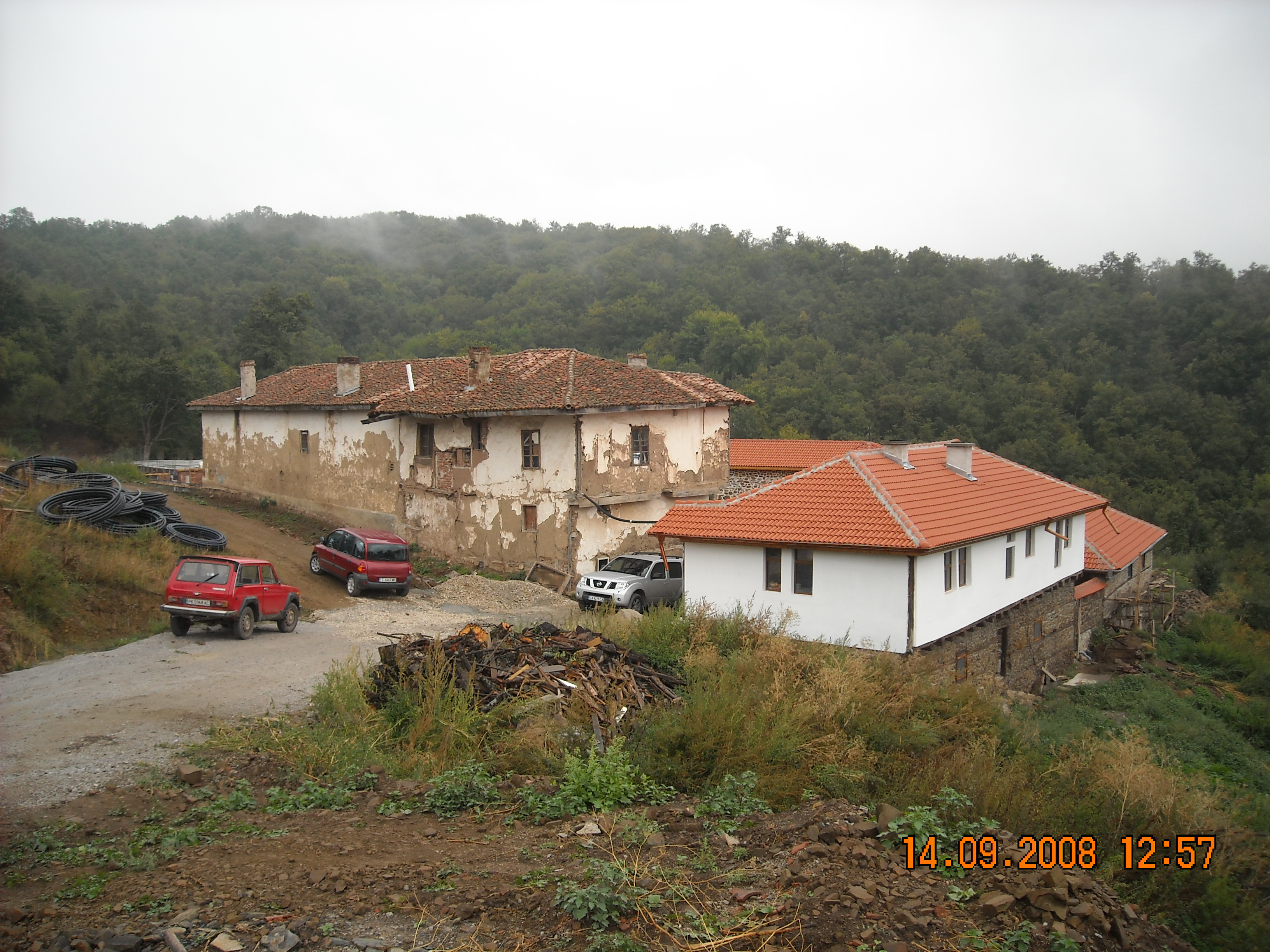 The buildings and the churchyard of Gigintsi Monastery